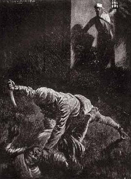 "The Sign of Four" illustrated by F.H. Townsend.